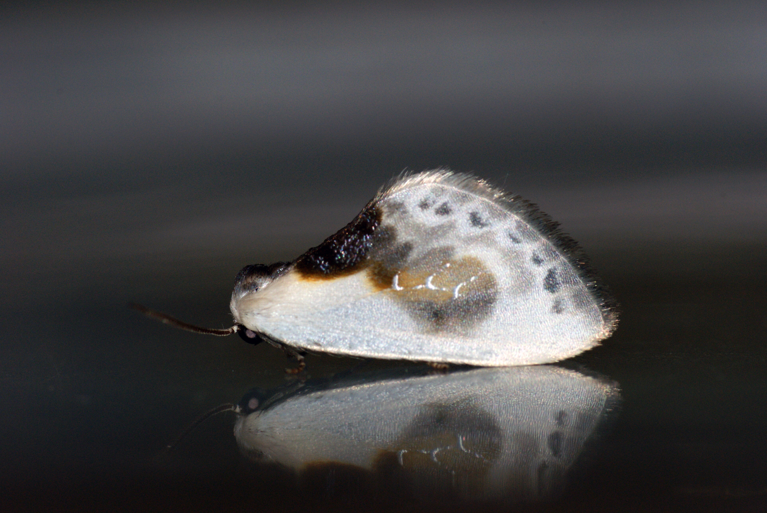 Having a moment to reflect upon the night.